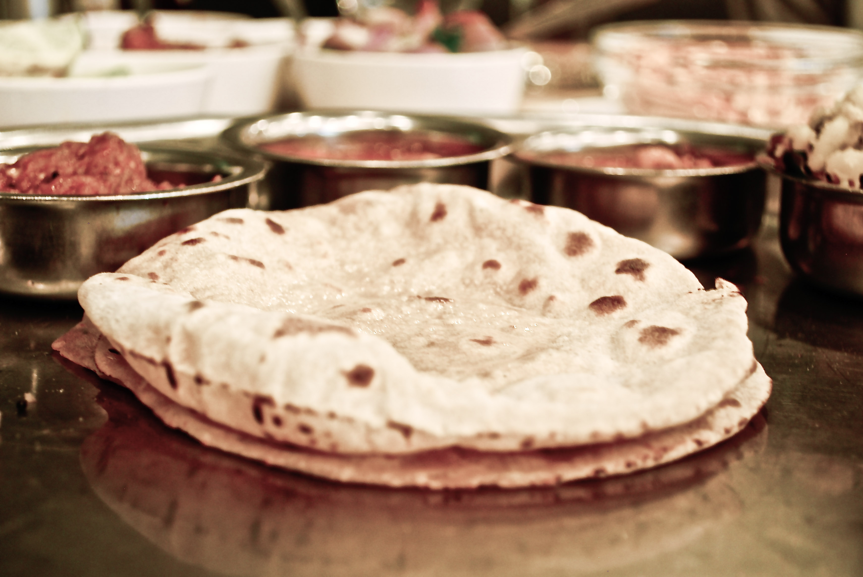 Chapati roti bread India